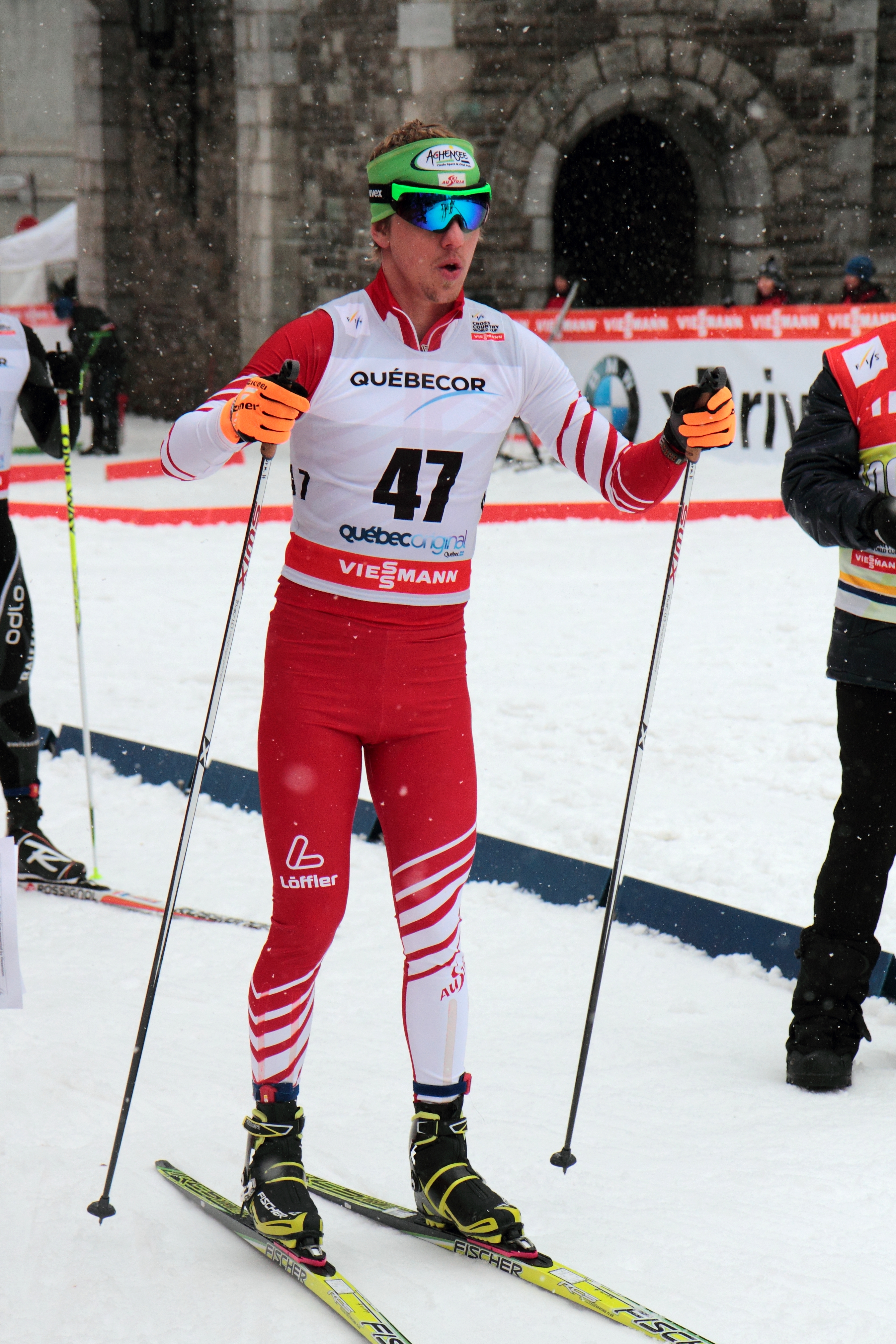 Harald Wurm, FIS Cross-Country World Cup 2012, Quebec, Canada.